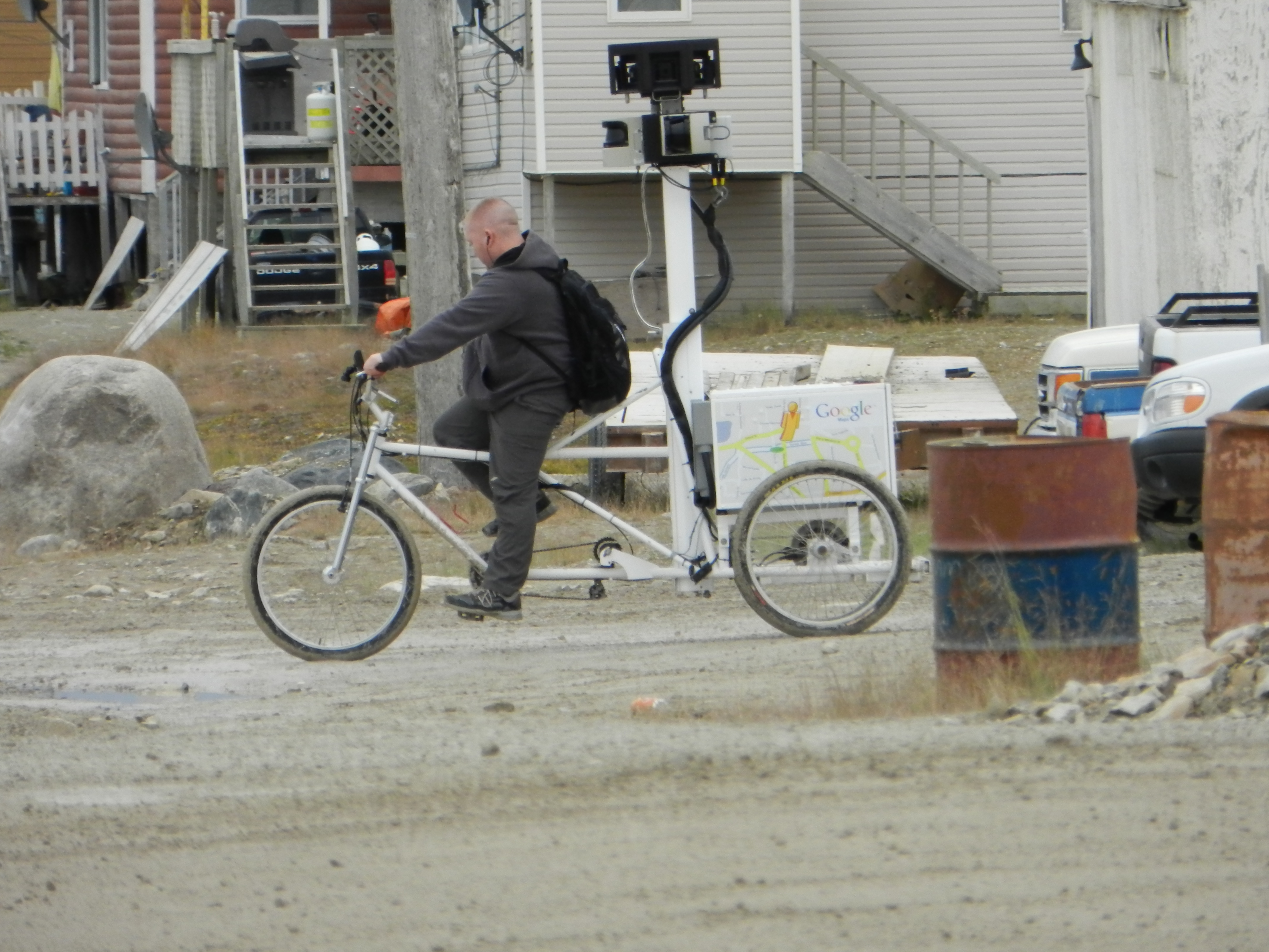 Google Trike used for Google Street View